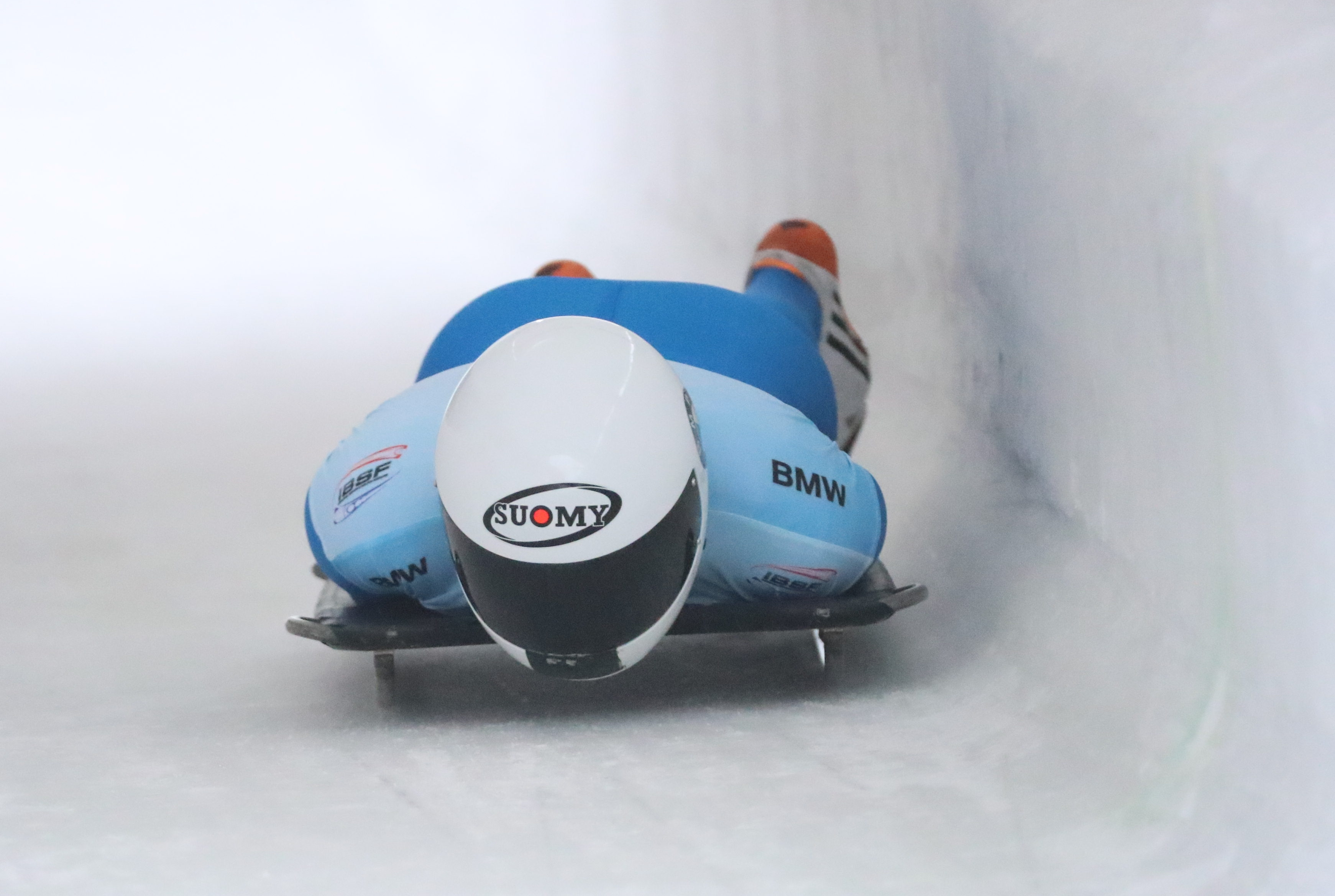 2nd run at the Women's Skeleton at the Bobsleigh and Skeleton World Championships 2020 in Altenberg